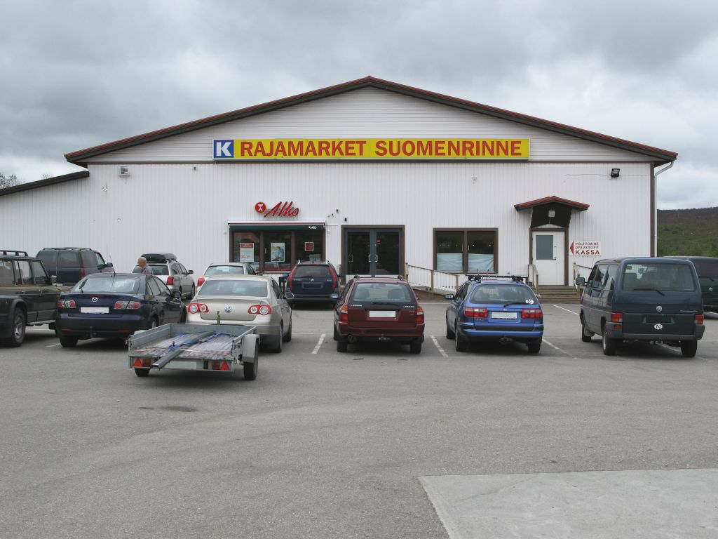 EU's northernmost liquor store (Alko) in Nuorgam village, Utsjoki municipality, Finland. The store is located near the border with Norway, and at the moment the picture was taken, all of the 32 cars in the parking lot were Norwegian. Finland's northernmost grocery store, K-Extra Auralan säästö, is located in the vicinity.